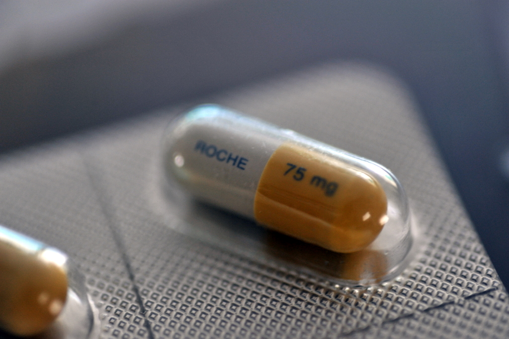 Tamiflu medicine pill by a Swiss company Roche against Influenza A (H1N1) virus causing the 2009 flu pandemic.